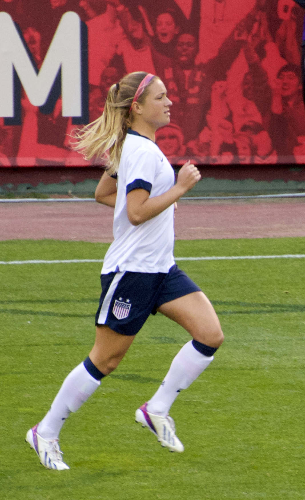 Kristie Mewis, Candlestick Park, 27 October 2013, USWNT vs New Zealand